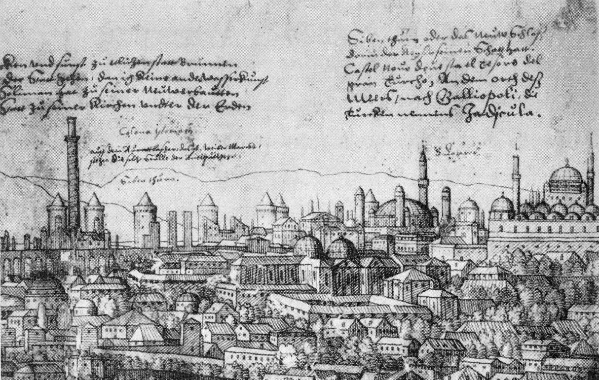 Detail from Melchior Lorck's massive Prospect of Constantinople, made ca. 1559. The Column of Arcadius is clearly visible in the left part of the picture.